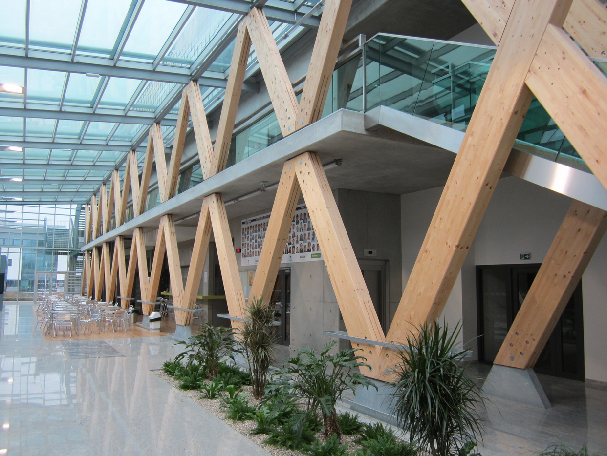 Interior view of the buildings of the french engineer school ECAM Strasbourg-Europe based in Schiltigheim